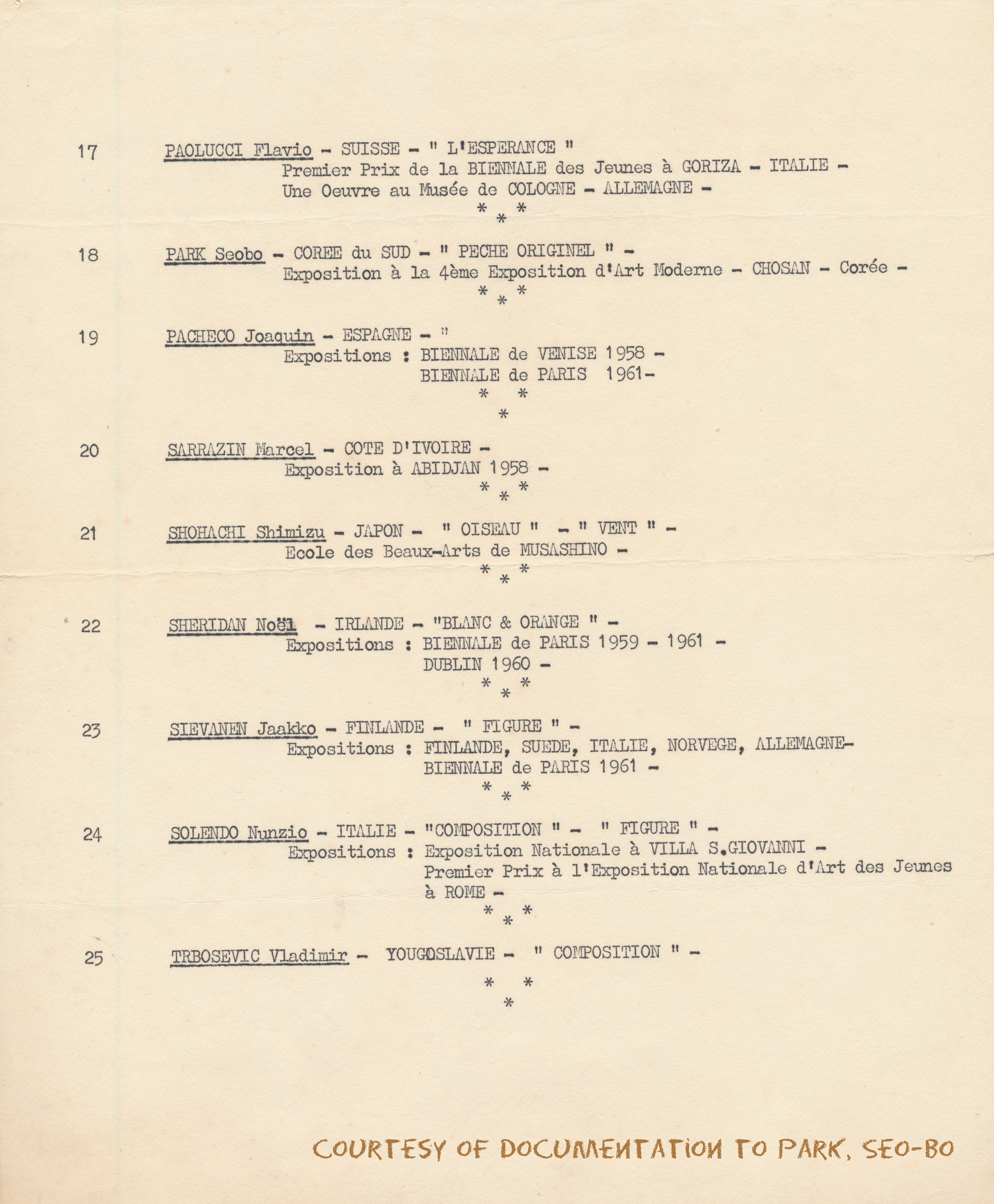 This is the first page of the list of the participants artists who submitted their work to the group exhibition of "Jeunes peintres du monde à Compiègne" held on October 21-22 in 1961. The exhibition was part of the residence program of "Jeunes peintres du monde à Paris" organized by the French Committee of International Association of Art and supported by UNESCO. The program was run from October 2 to October 28 in 1961, parallel with the 2nd Paris Biennial which started on September 28. This scanned list is provided by the daughter of Park Seo-Bo's with his consent. Park Seo-Bo is one and the Korean representative artist of the 27 artists from 24 countries.